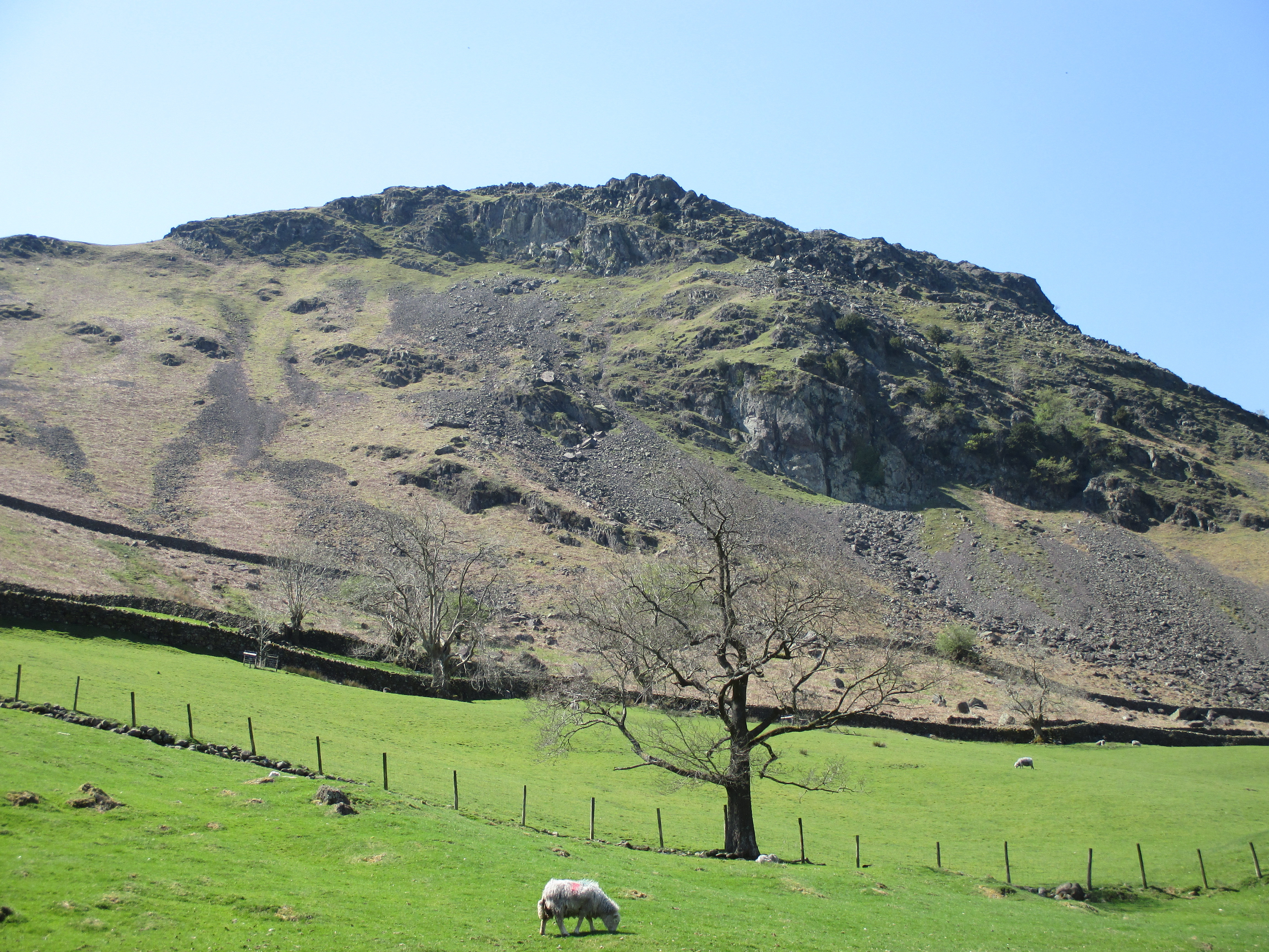 Helm Crag, one mile north-west of Grasmere village, seen from the foot of its eastern slopes.